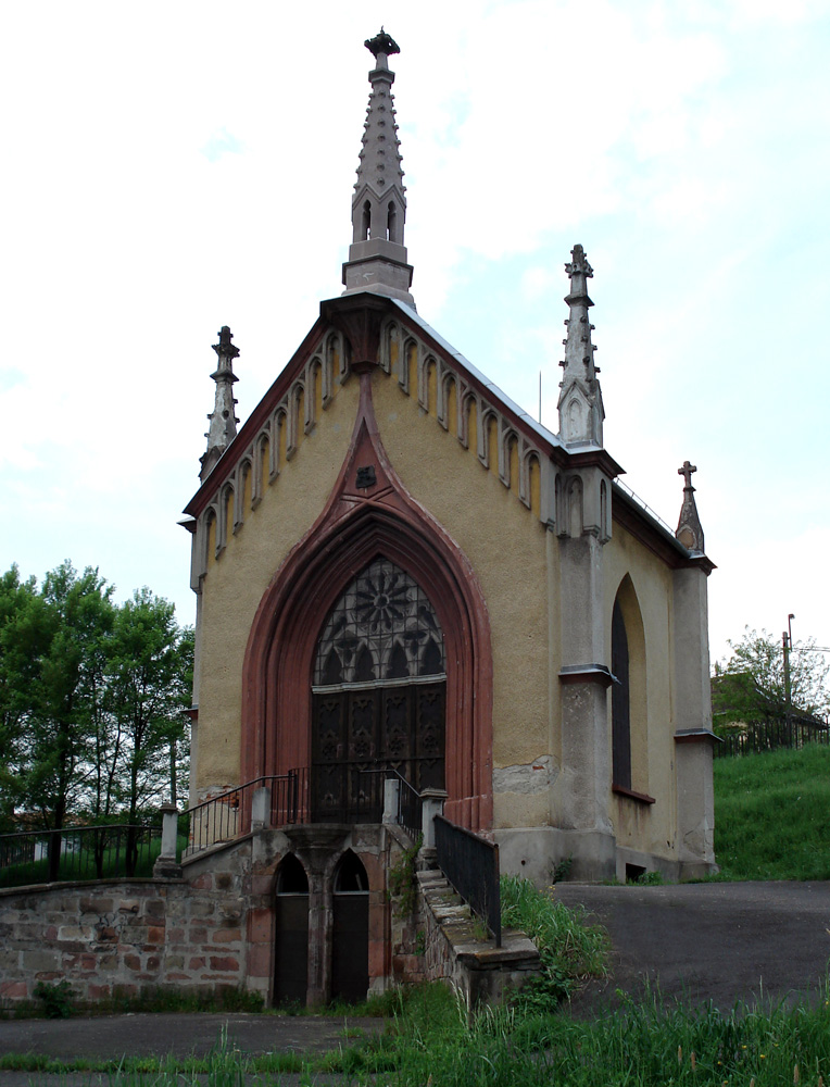 Calvary Chapel (1864), Miskolc, Hungary